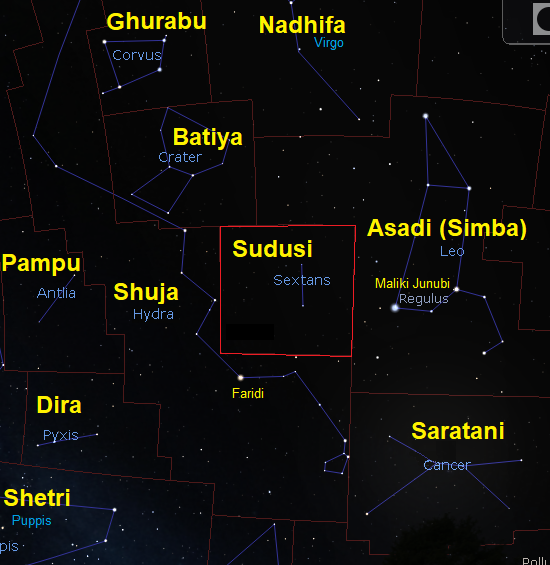 Constellation Norma as seen from Tanzania, Swahili labelled Kiswahili: Kiswahili: Kundinyota Kipimapembe (Norma) jinsi inavyoonekana kutoka Tanzania, majina kwa Kiswahili